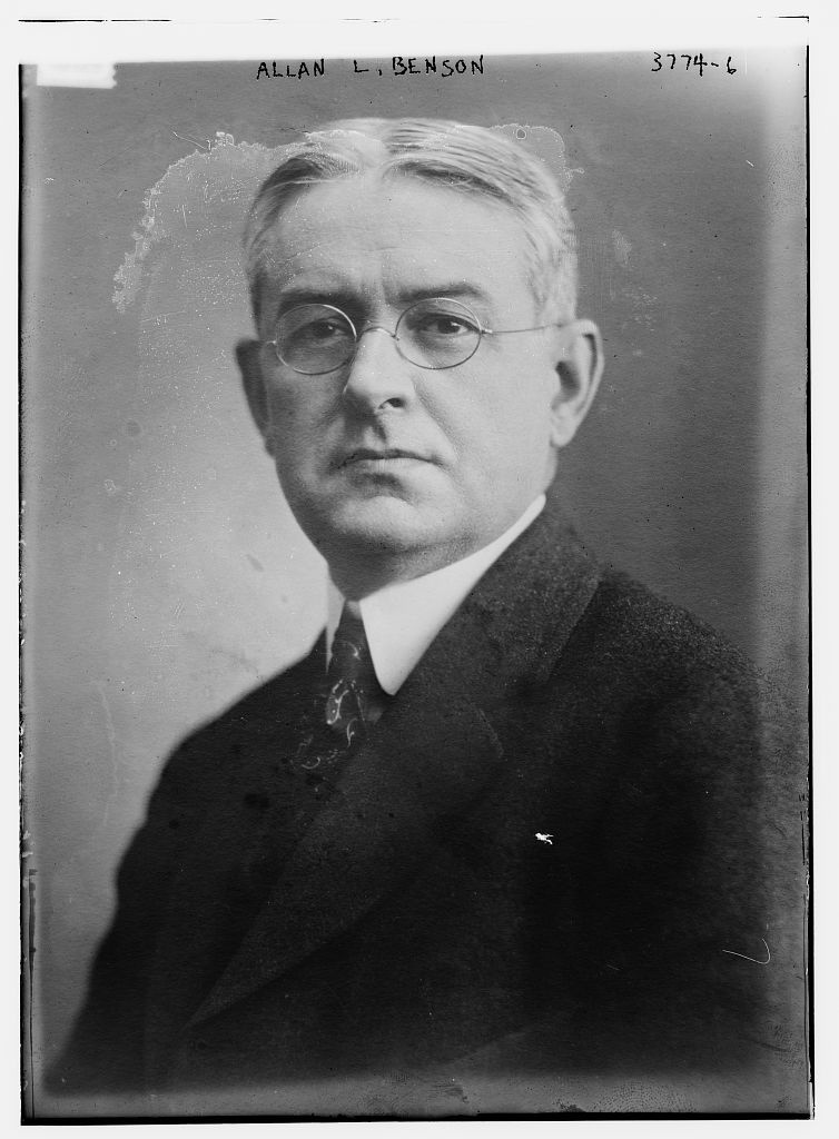 Allan Louis Benson (1871–1940) circa 1915